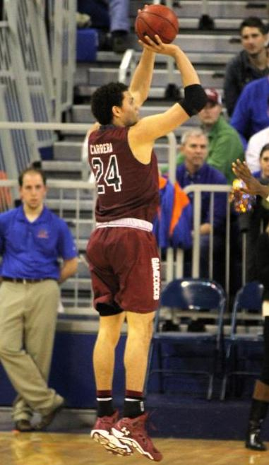 Michael Carrera made Jumper